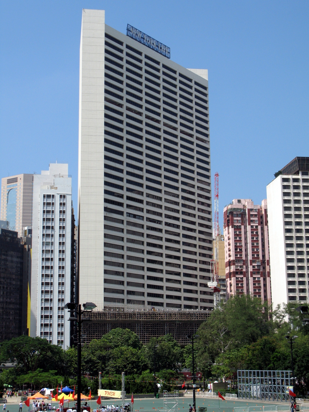 Windsor House 皇室大廈